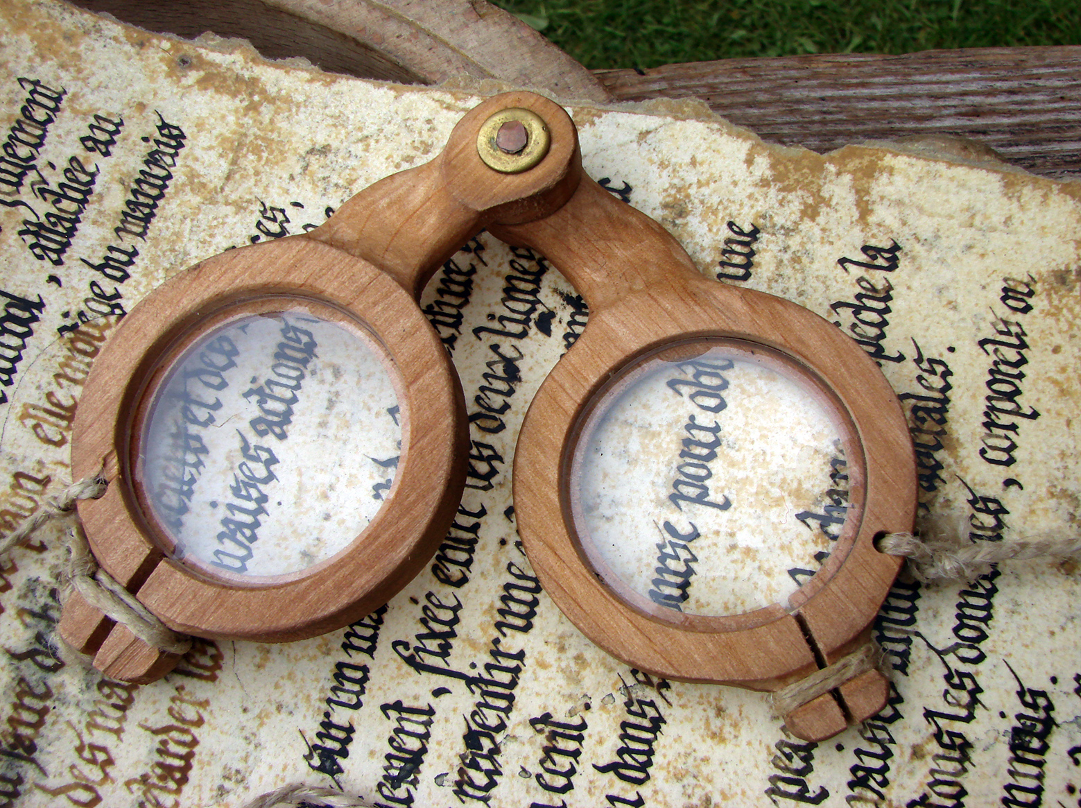 Medieval glasses (replica)